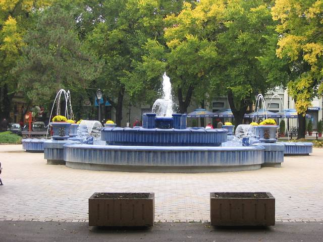 Subotica